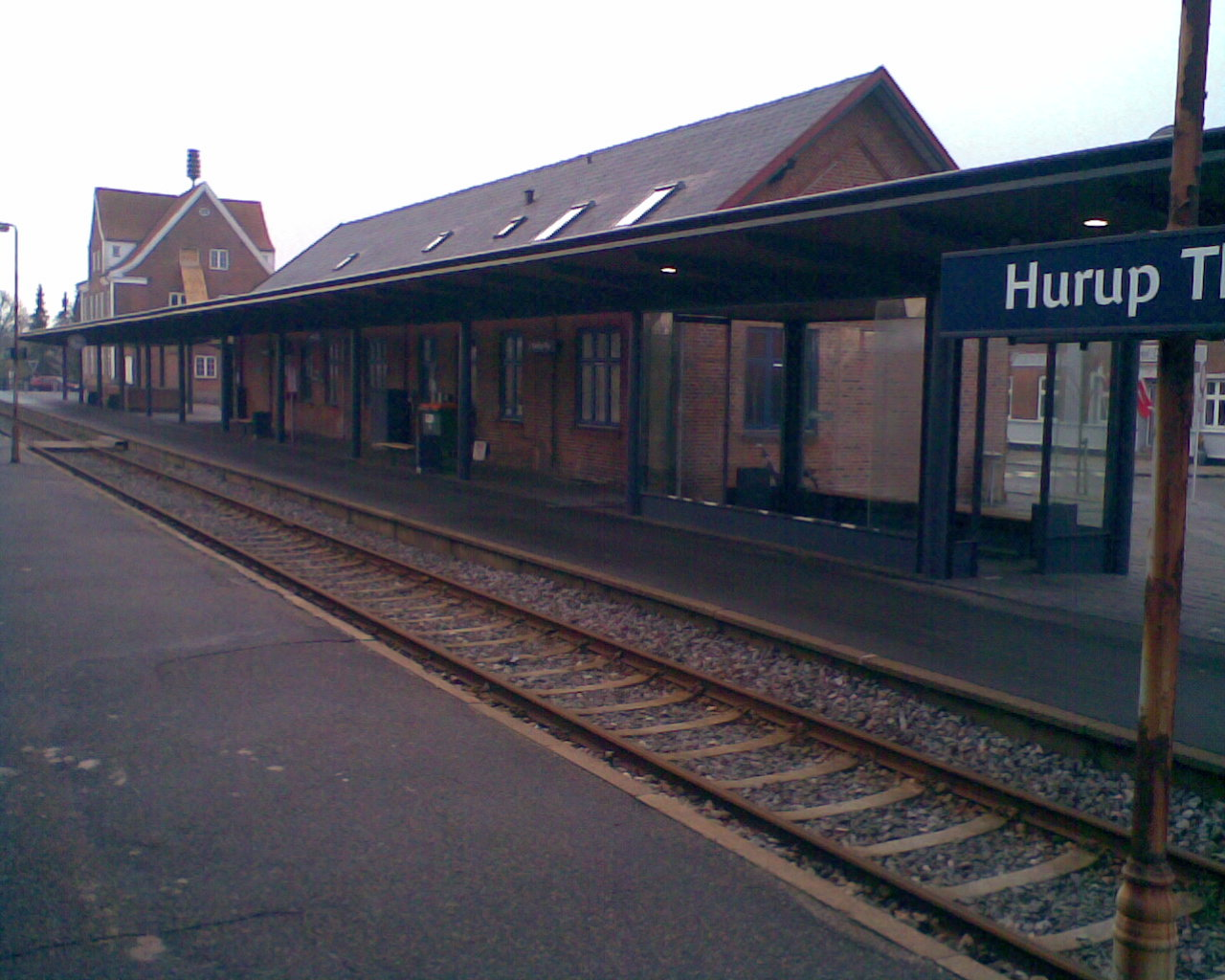 Hurup Thy Station, Denmark